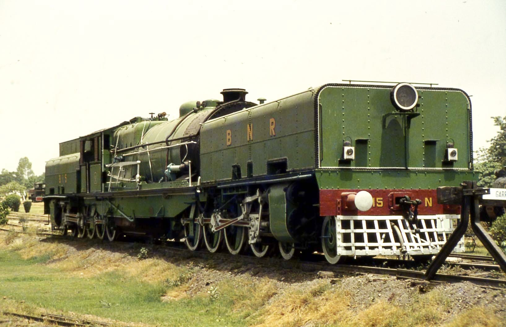 Bengal Nagpur Railway number 815. A Beyer Garratt built in Manchester by Beyer Peacock & Co Ltd (serial number 6594 of 1930). Seen at the National Rail Museum, New Delhi, India.